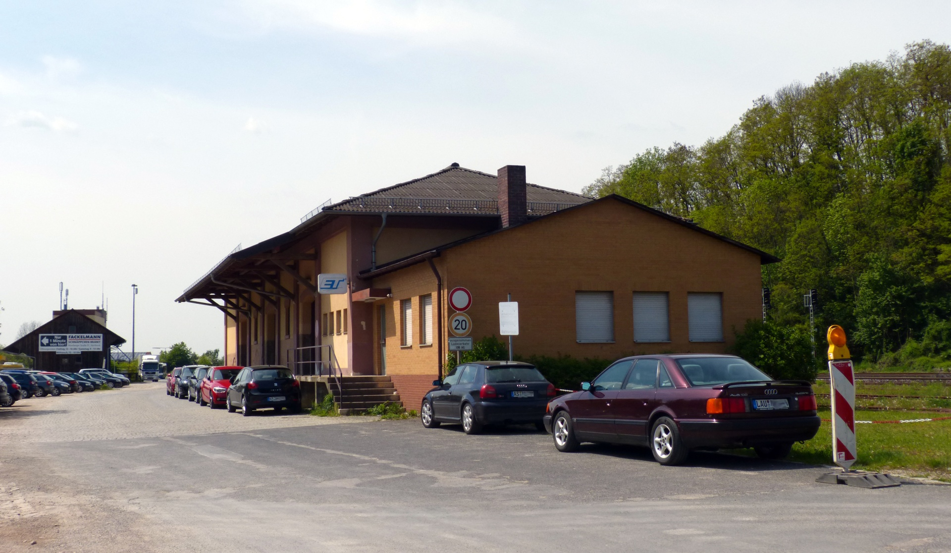 Former goods shed of the german railway station Hersbruck (rechts Pegnitz)